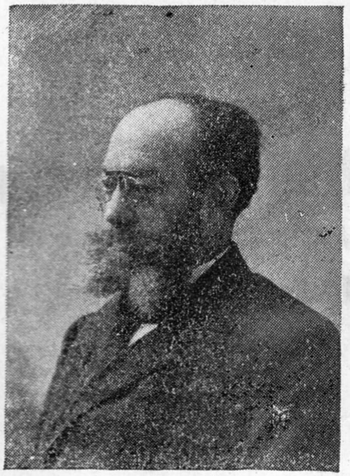 Boris Greidenberg